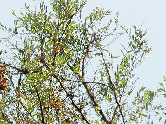 Canopy of domesticated Celtis tala tree